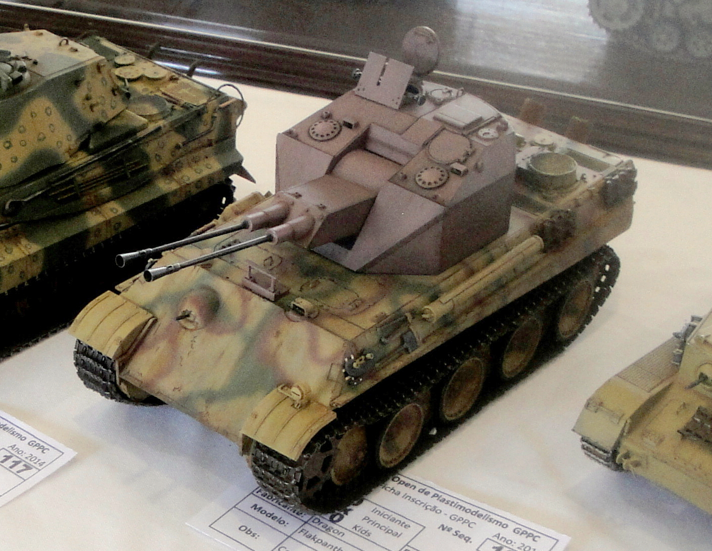 XVII Open de Plastimodelismo de Catanduva realizado no Espaço de Exposições da Estação Cultura em Catanduva. Carros de combate de diversas épocas.